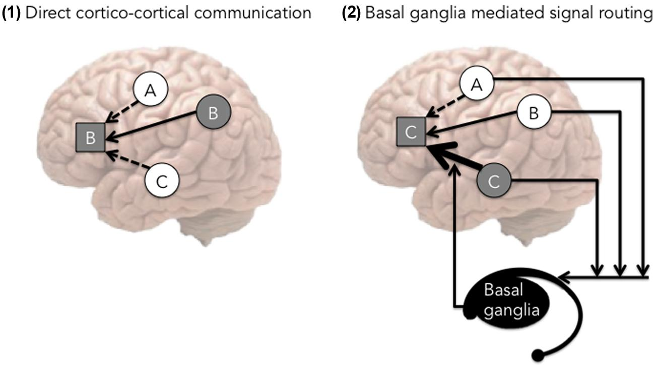 The conditional routing model, adapted from Stocco et al. (2014). In this figure, Side 1 represents a prototypical situation, where prefrontal cortex (PFC) is receiving multiple concurrent signals. In this situation, the strongest concurrent signal (from region B) is most likely to affect the PFC (hence the figure shows the impact of connection B in the prefrontal cortex). Side 2 exemplifies the role of the basal ganglia, which serves as a mechanism to modify cortical pathways. In this case, the basal ganglia strengthen the signal particularly from area C (hence the figure features the impact of connection C).